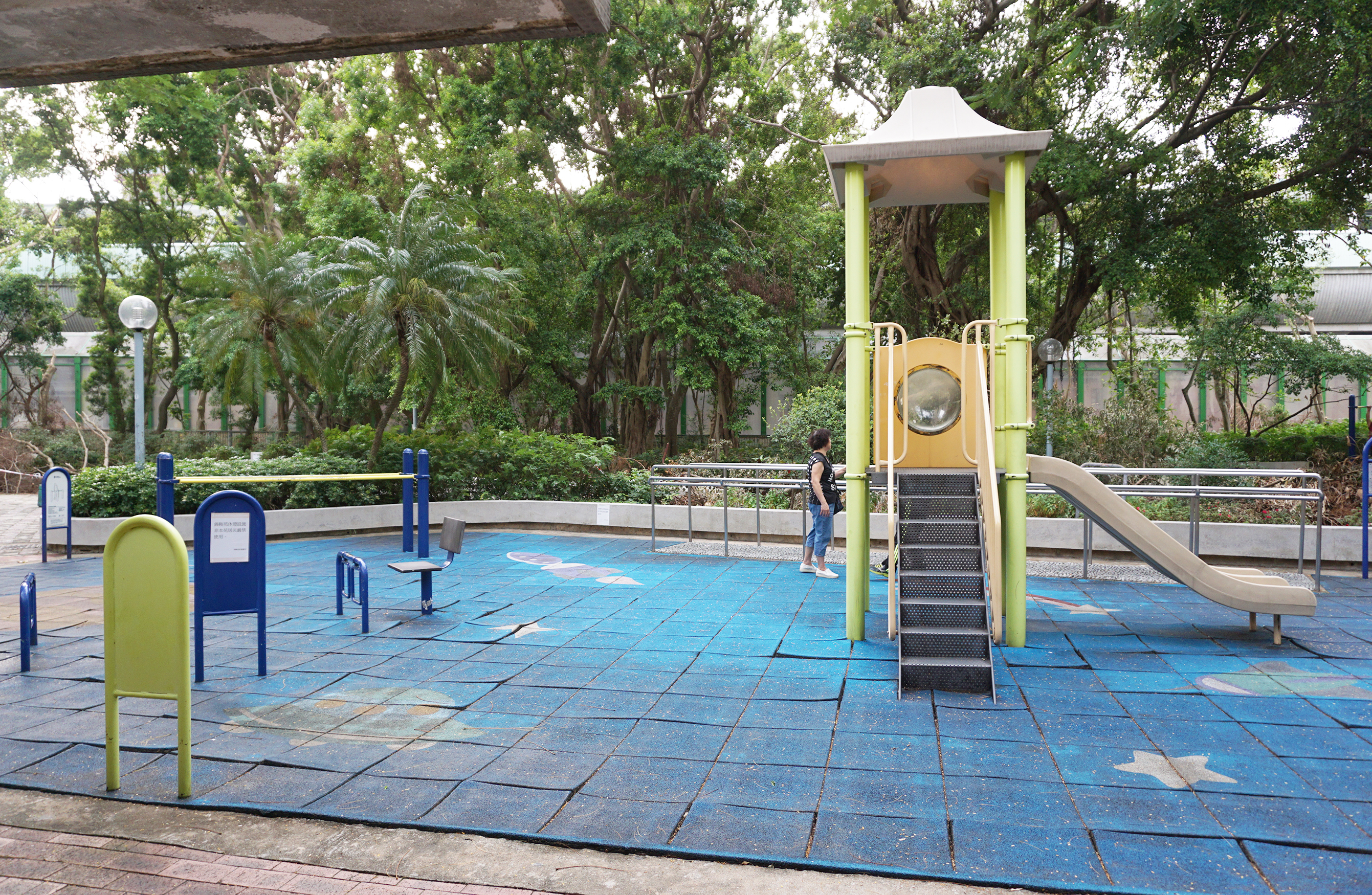 Kam On Court in Heng On, Hong Kong.